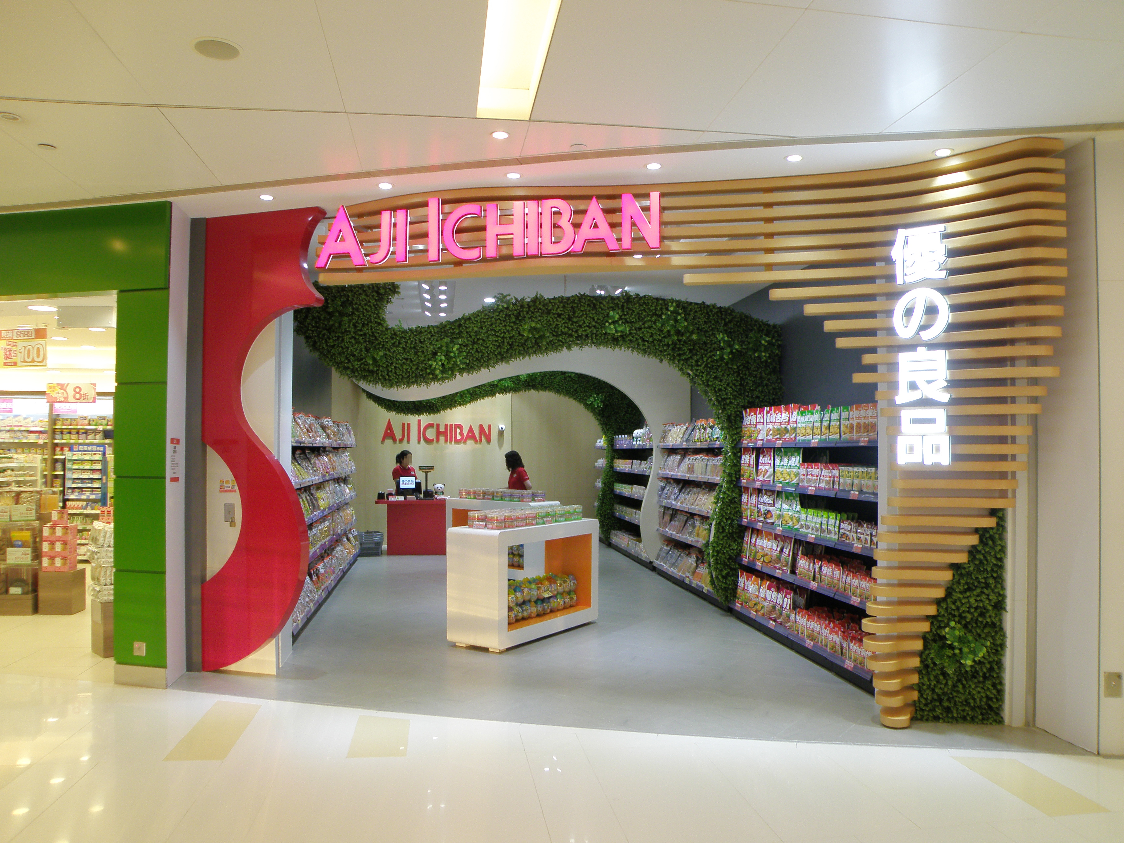 Aji Ichiban in San Po Kong, Hong Kong.